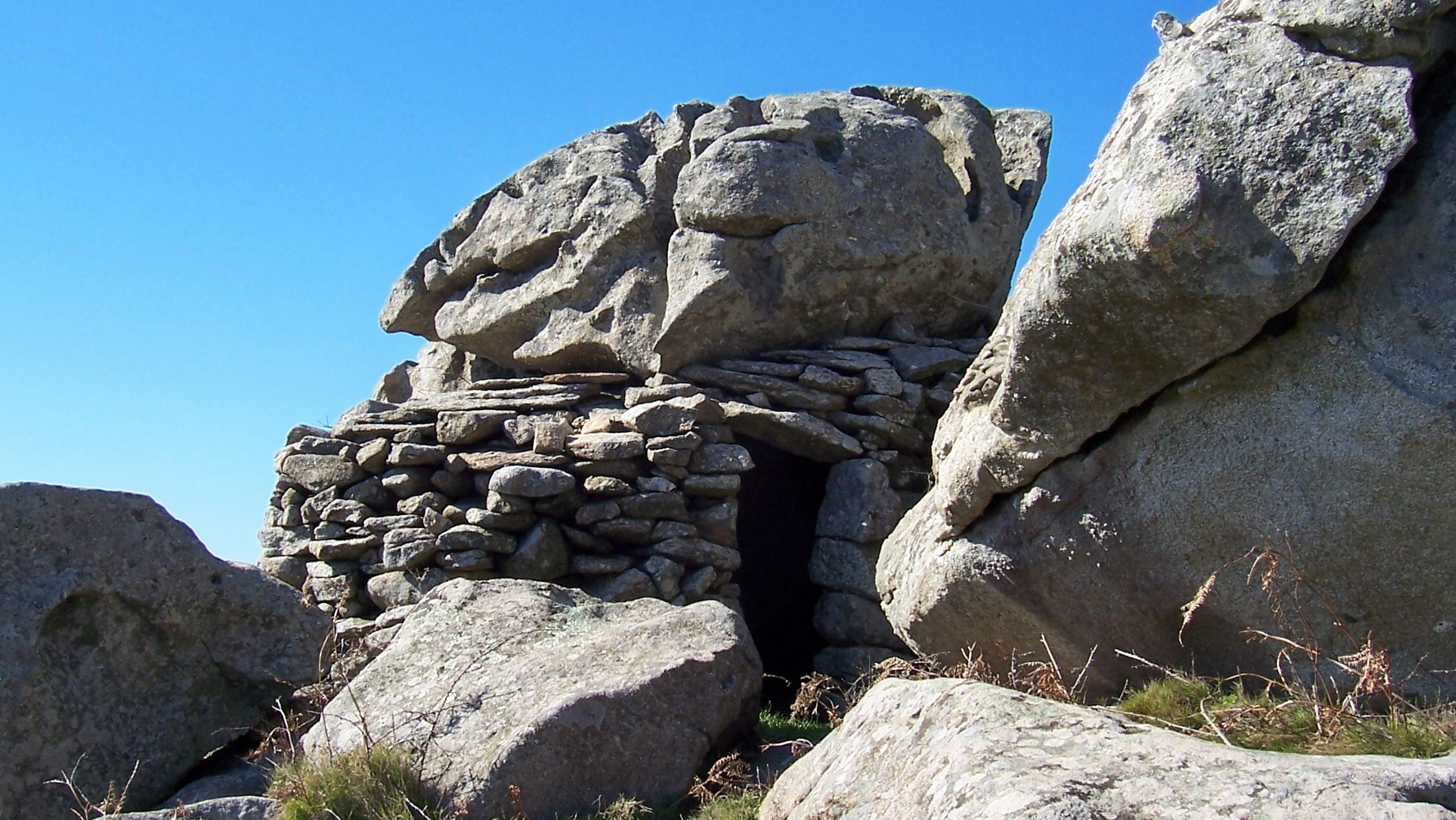 Elba island